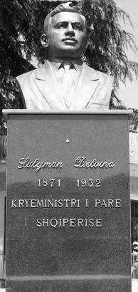 Monument of Sulejman Delvina Prime Minister of Albania in 1920